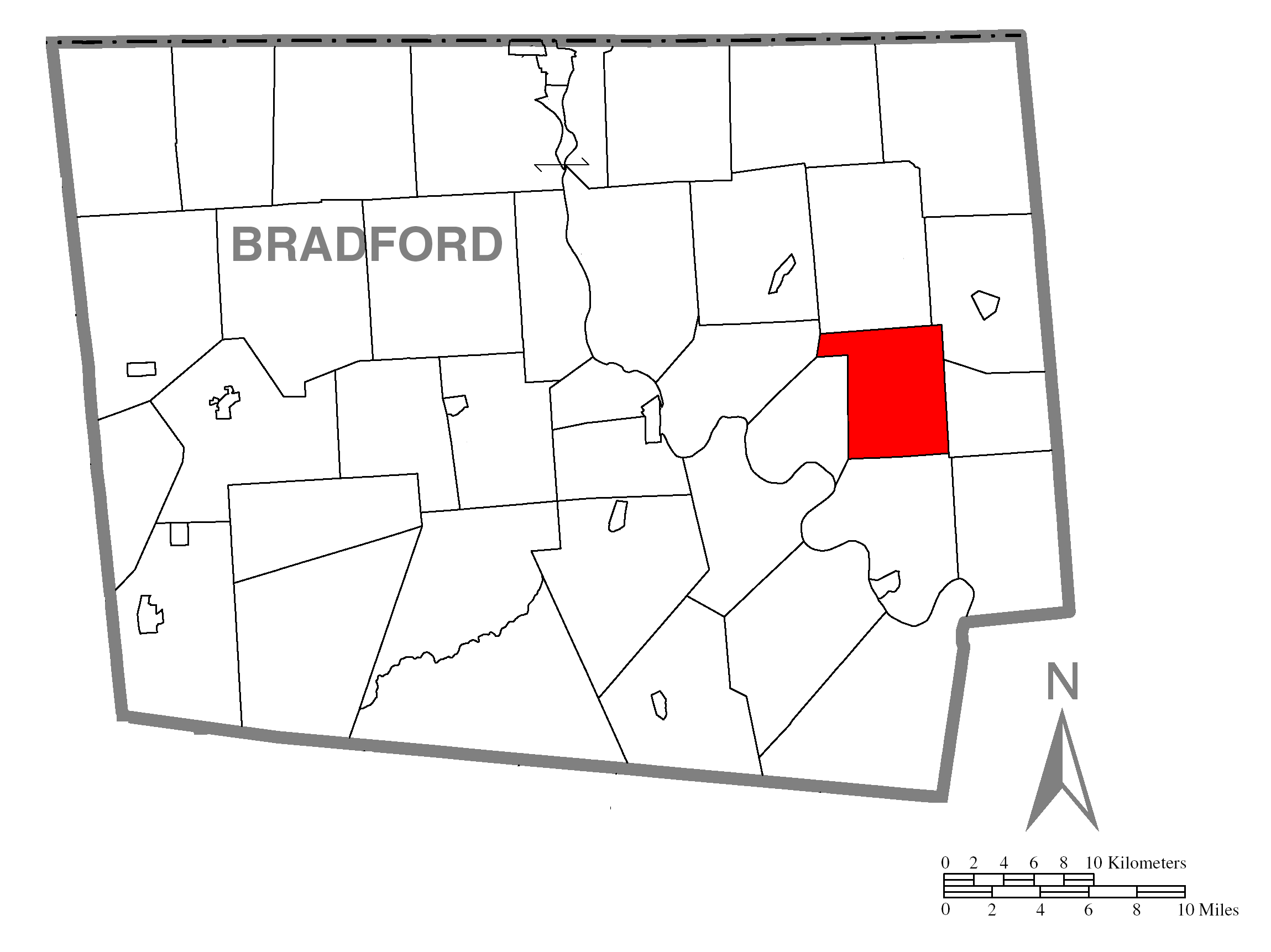 A map of Bradford County showing Herrick Township, Pennsylvania (alternate) highlighted on the map.